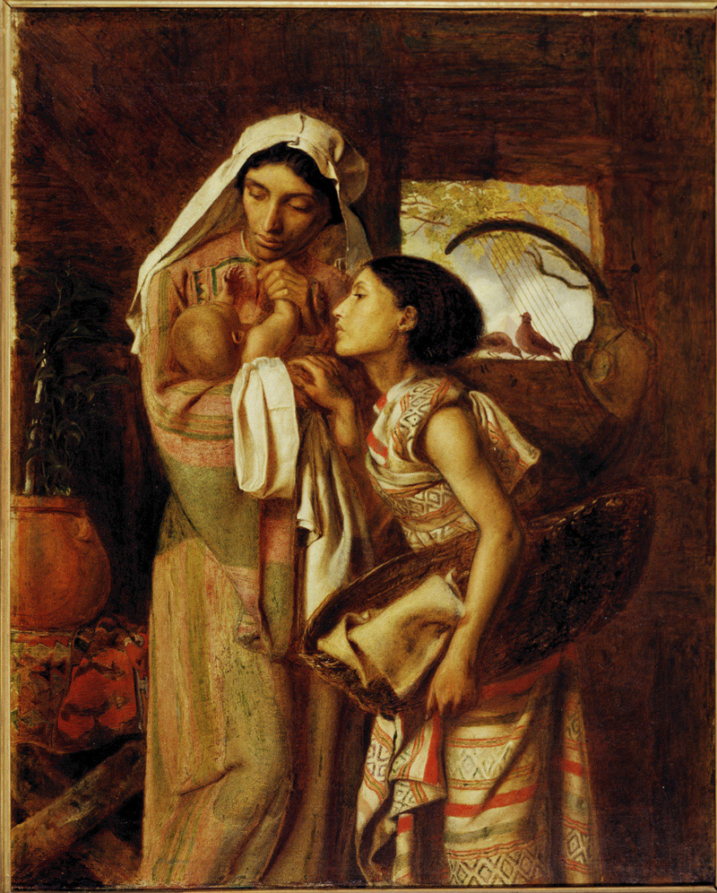 Solomon was an important if unusual figure in the Victorian period. Jewish by descent, he was born into a family of painters. He often painted Old Testament subjects such as this one, taken from the life of Moses. Unlike earlier depictions in which the heroic aspects of Moses’ life are depicted, Solomon has chosen a more intimate moment. Moses’ mother is shown caressing her child for the last time before she places him in the basket and sends him down the river to his destiny. Solomon, like many of his contemporaries, was concerned with the historical accuracy of his depictions. Many of the objects included in this painting were observed and closely studied by the artist in the collection of the British Museum. In addition, he has chosen models with convincingly Semitic features to strengthen the authenticity of the scene. (see references)